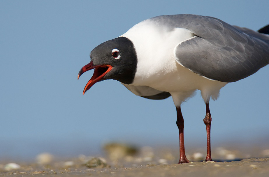 Laughing gull